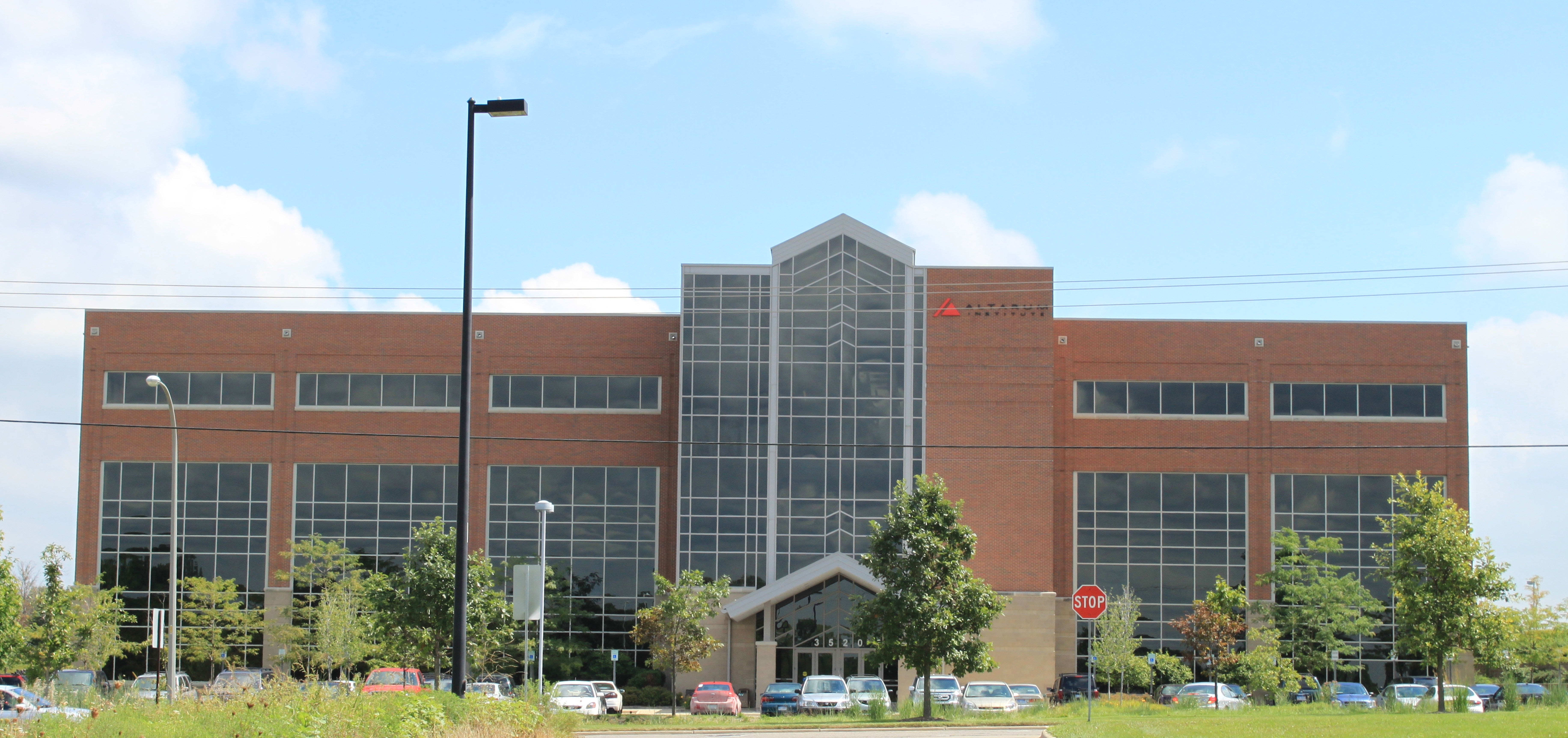 Altarum Headquarters building, 3520 Green Court, Ann Arbor, Michigan